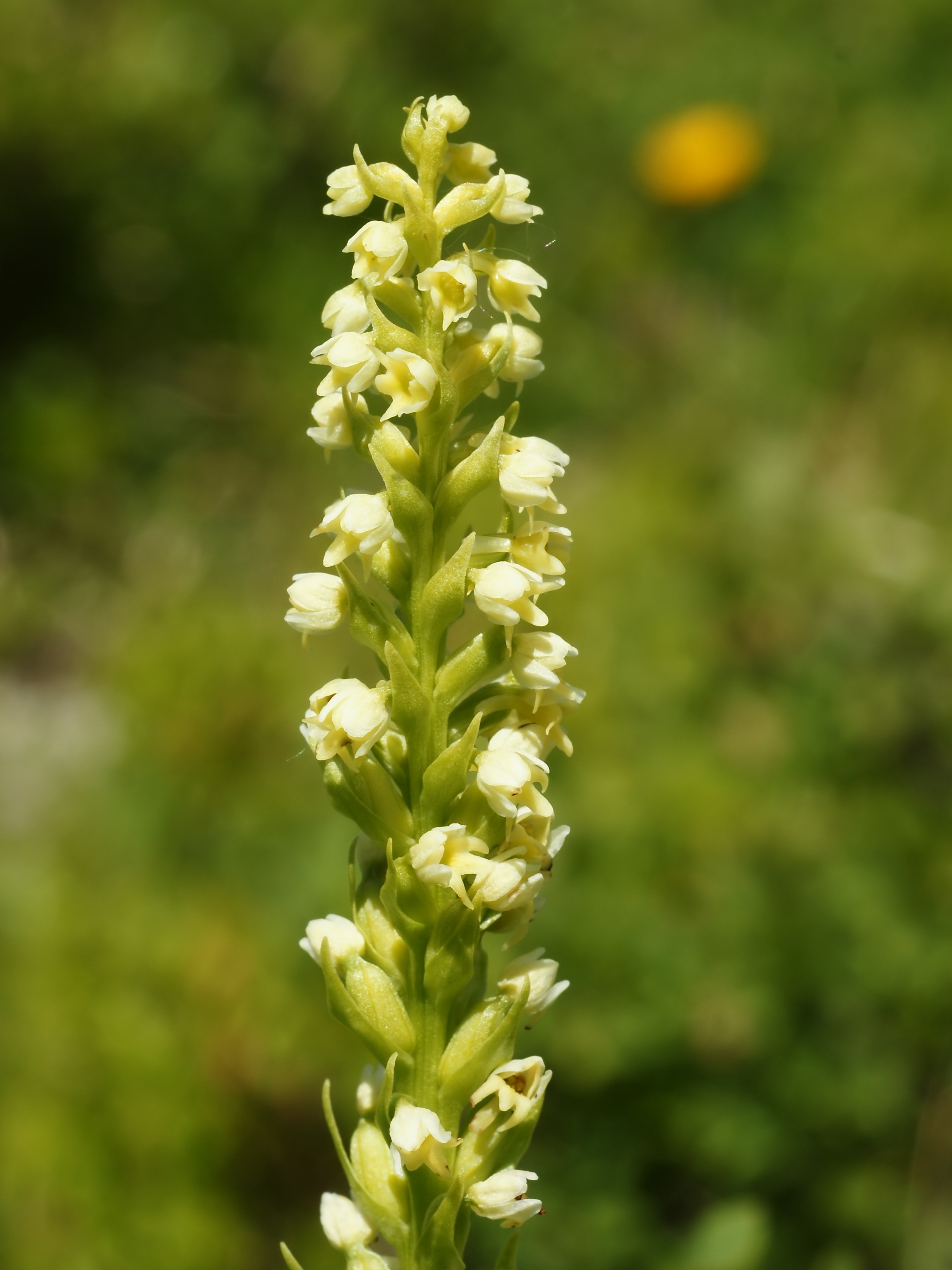 White Mountain Orchid, Lötschental, Wallis, Switzerland